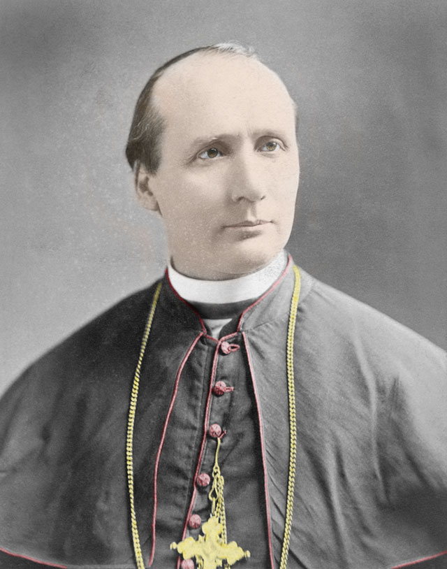 John Joseph Keane, who served as Bishop of Richmond, VA; first rector of the Catholic University of America in Washington, DC; and Archbishop of Dubuque, IA.